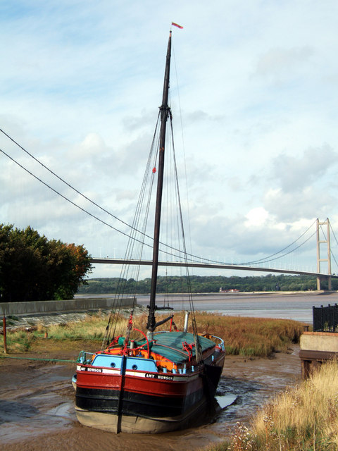 "Amy Howson", Barton Haven, Barton-upon-Humber, Lincolnshire, England.The preserved Humber sloop "Amy Howson" lying in Barton Haven with the Humber bridge in the background. She is the only surviving Humber sloop, built in Beverley in 1904 as a keel and christened 'Sophia'. In 1916 she was re-rigged as a sloop to transport goods between Hull and Grimsby with a change of name to 'I know'. In 1922 William Henry Barraclough of Barton on Humber acquired her re-named her again after his daughter 'Amy Howson'. After a working career, she was left to rot moored up on the River Hull until rescued in 1976 by the Humber Keel and Sloop Preservation Society. The Amy Howson had the honour of being the first vessel to sail under the Humber Bridge on its opening day on 17th July 1981. She now makes regular cruises on Humber, Ancholme and Trent, retiring to Barton Haven during the winter months.